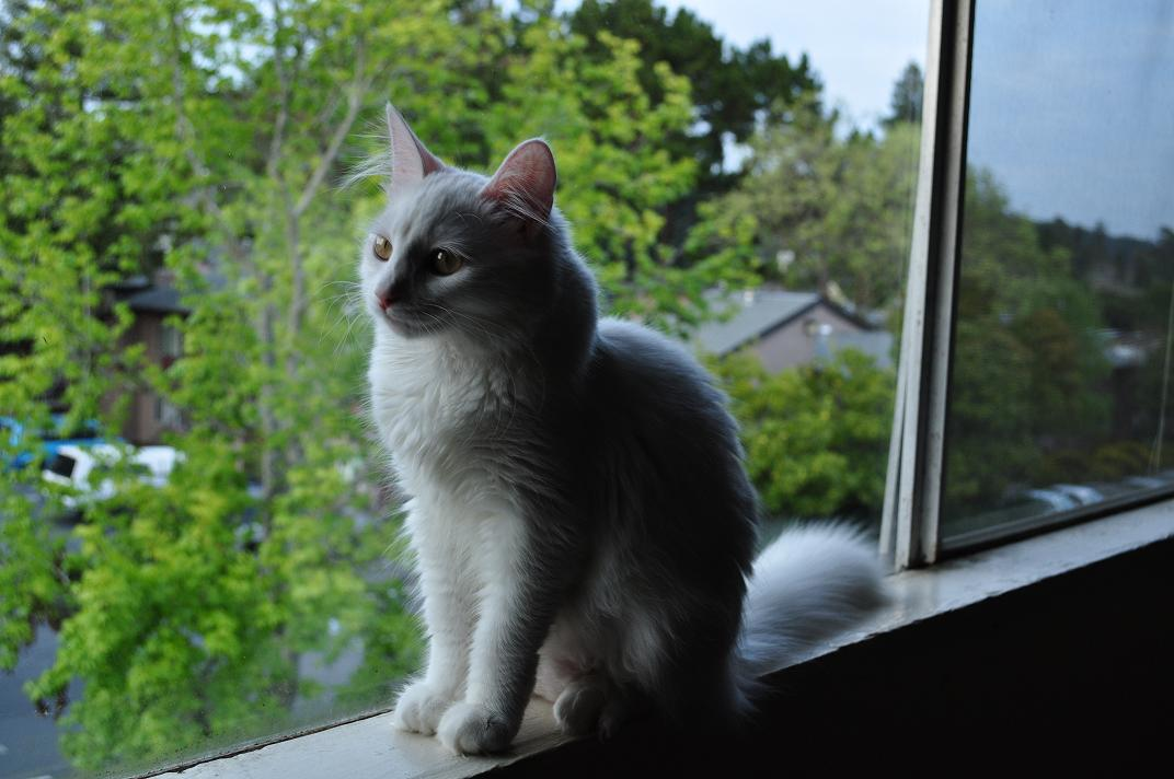 Turkish Angora